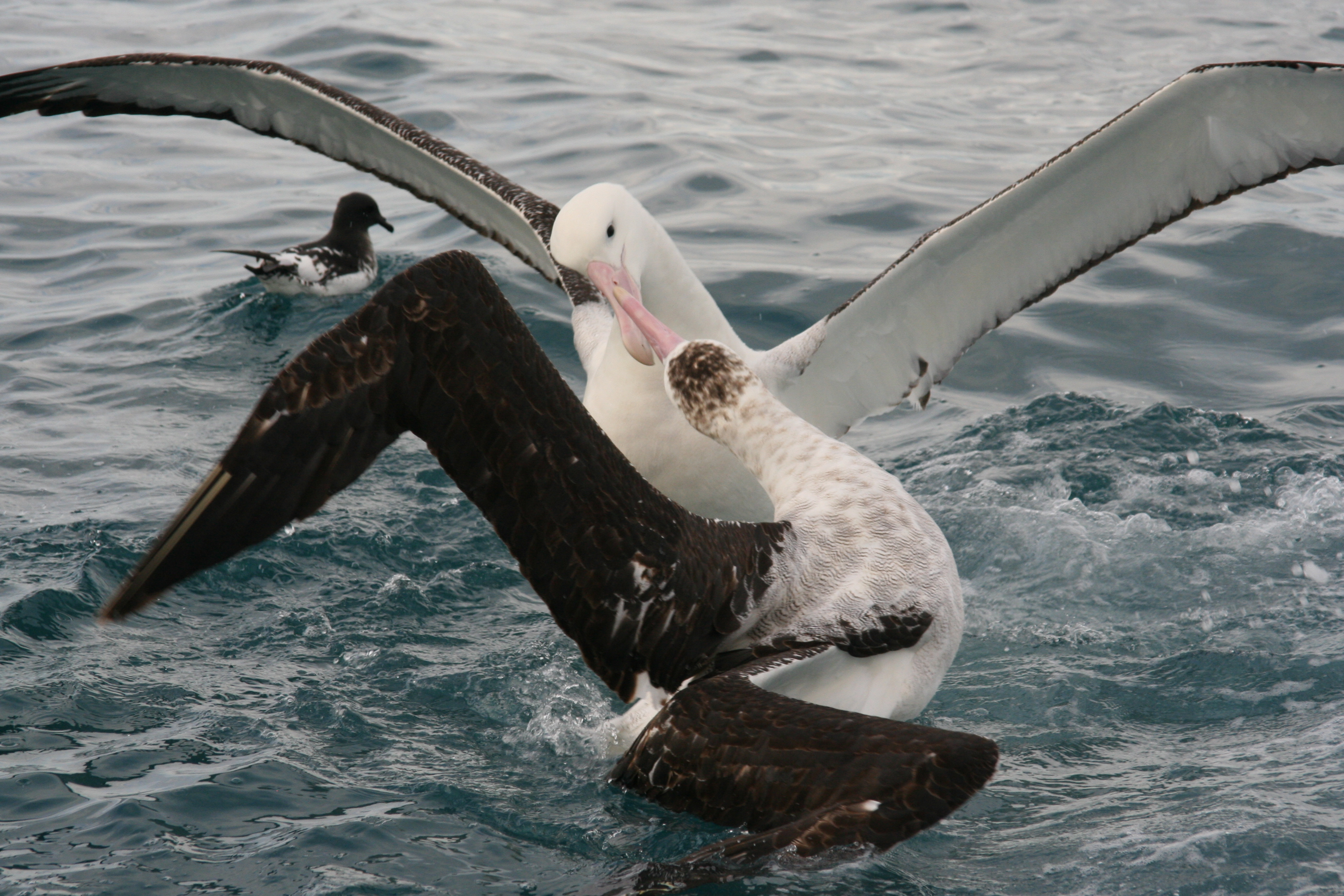 Two Antipodean Albatrosses (Diomedea antipodensis gibsoni) of the Gibson's sybspecies squabbling over food. Kaikoura, New Zealand